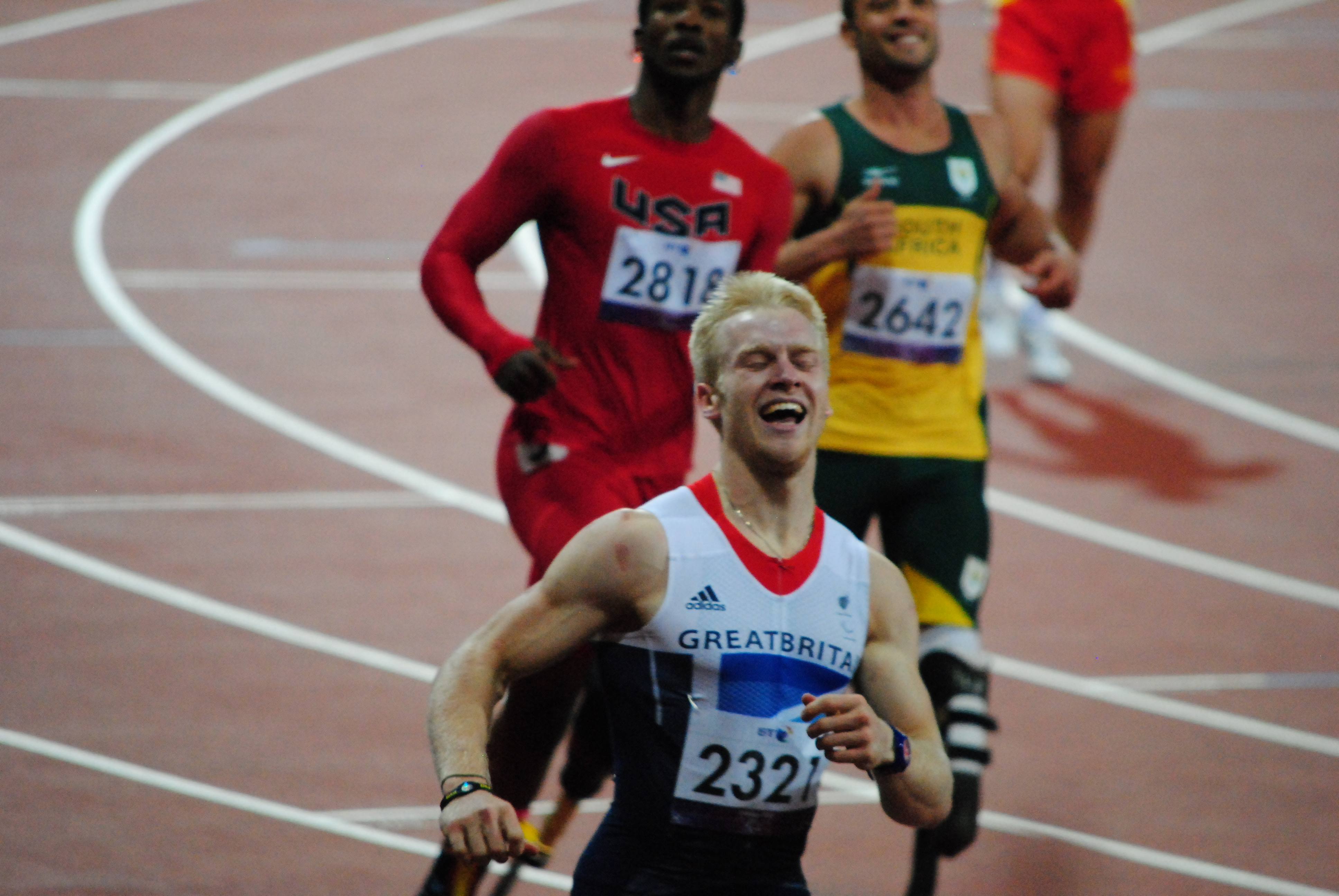 British paralympian Jonnie Peacock at the 2012 Paralympics in London